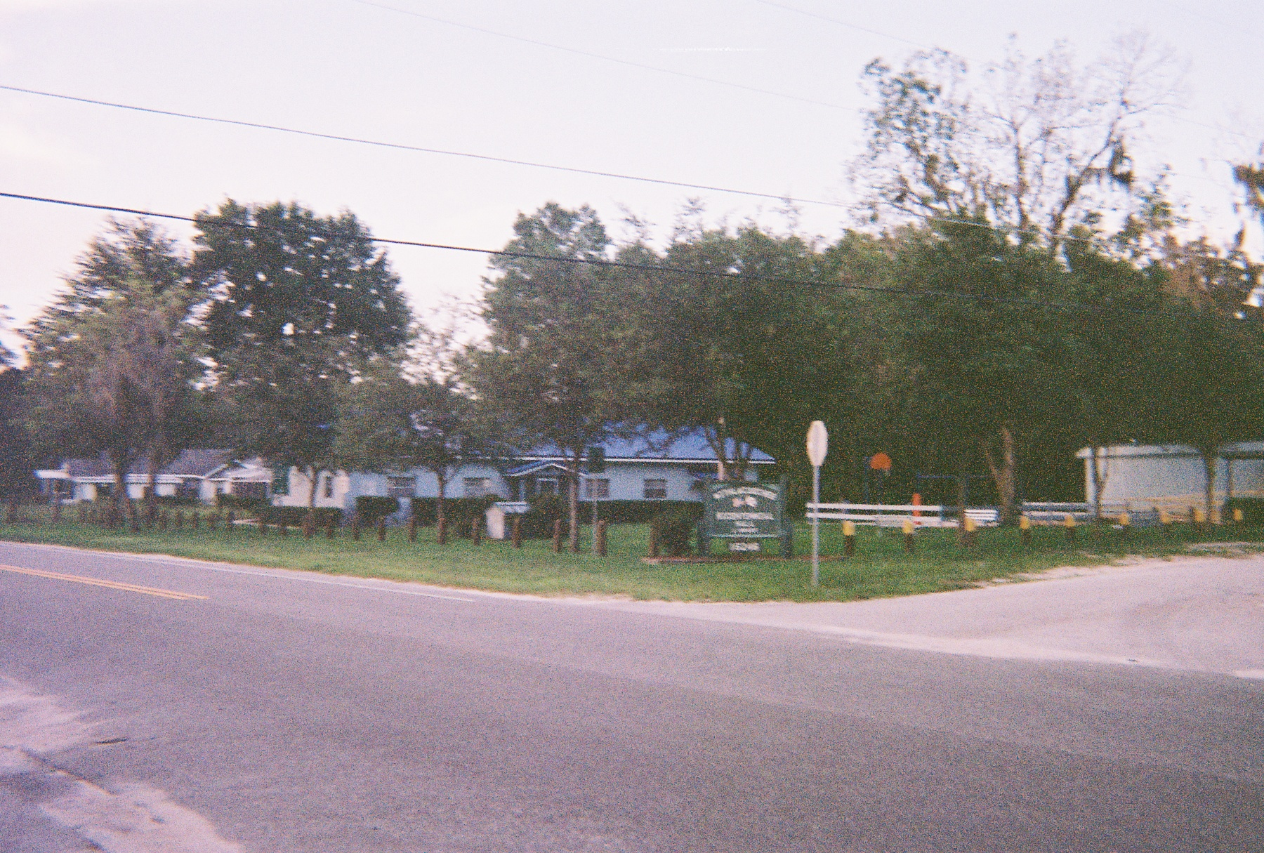 The Hernando County Library and community center at the center of town across from the general store in Istachatta, Florida.